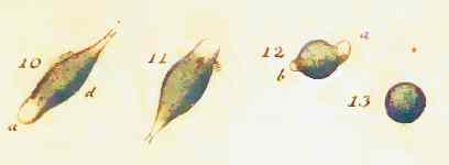 Detail of cercaria viridis, from OF Muller's Animalcula Infusoria